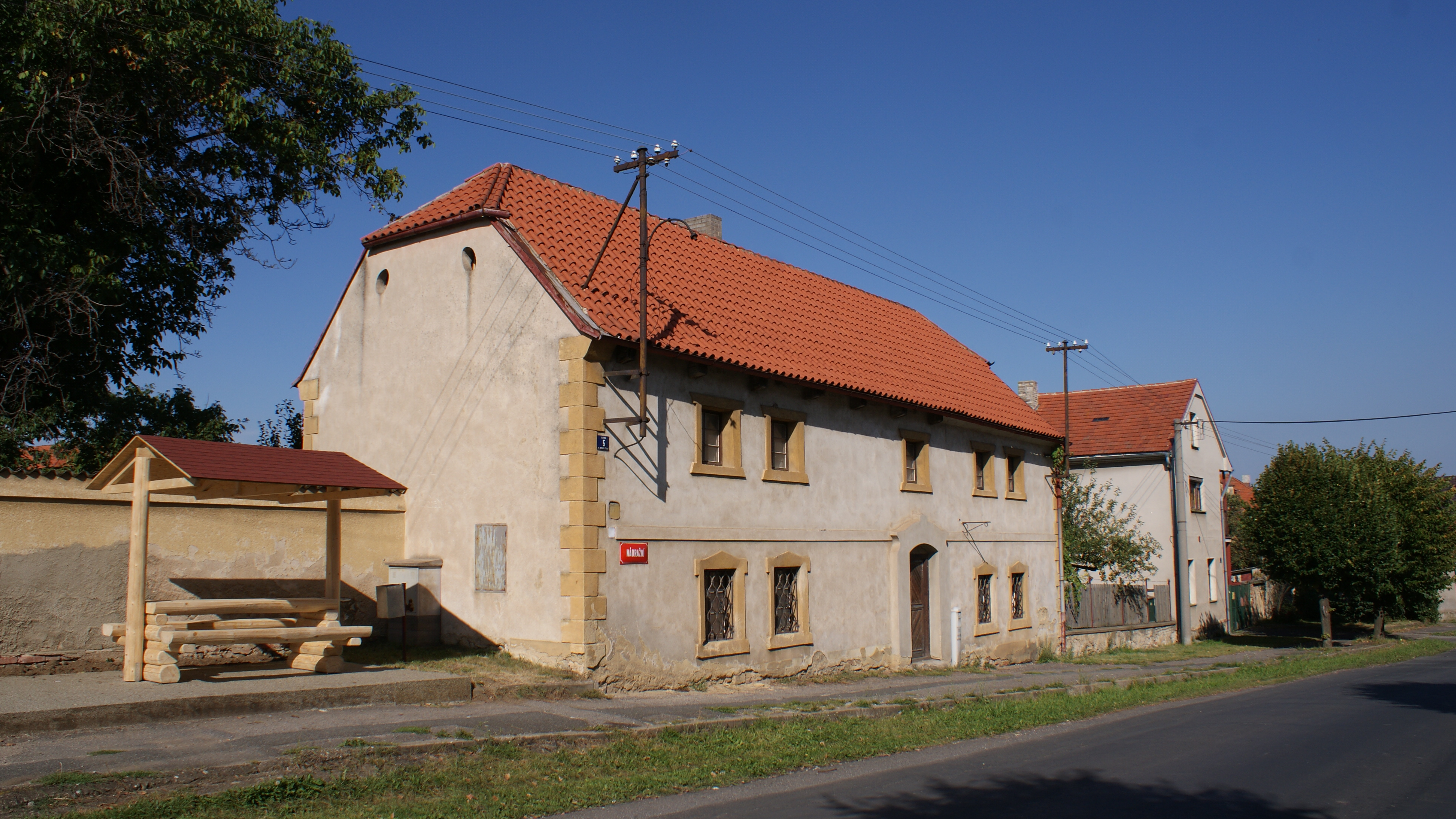 Former granary in Liteň